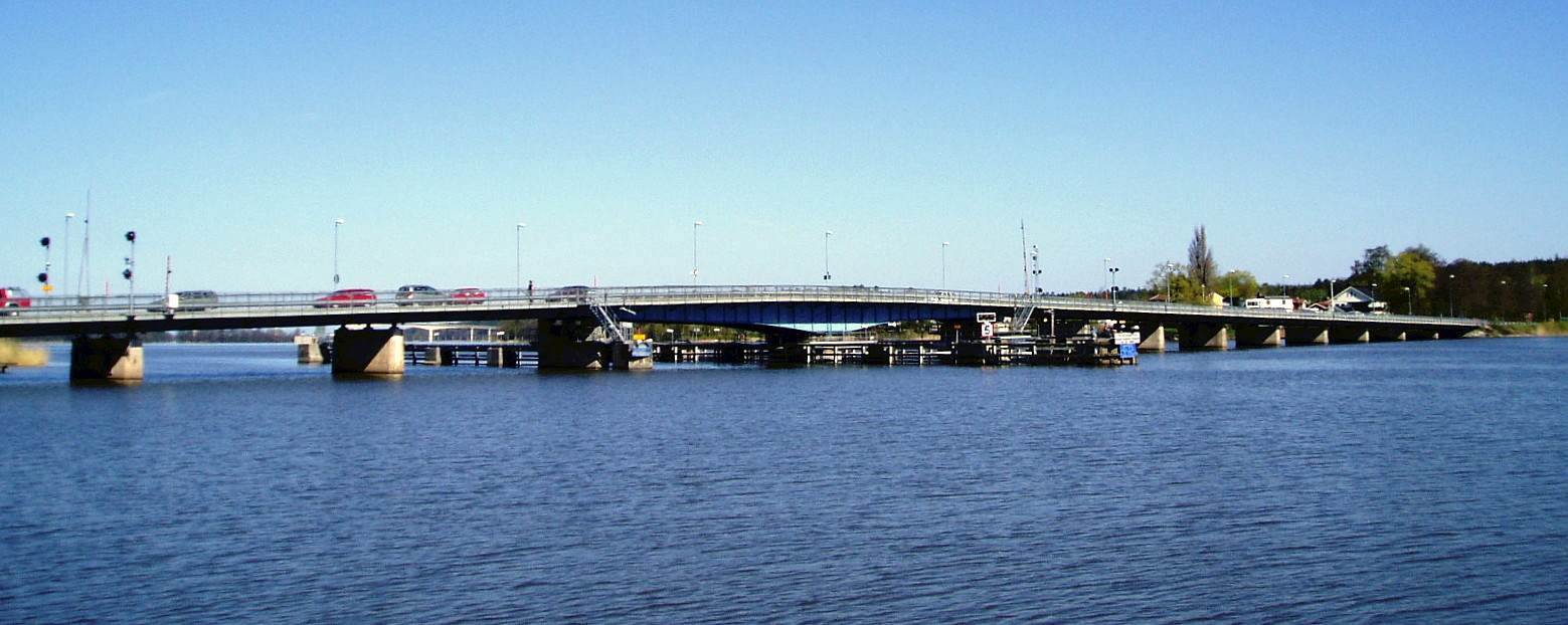 Torsteröbron, bridge at Strängnäs, Sweden